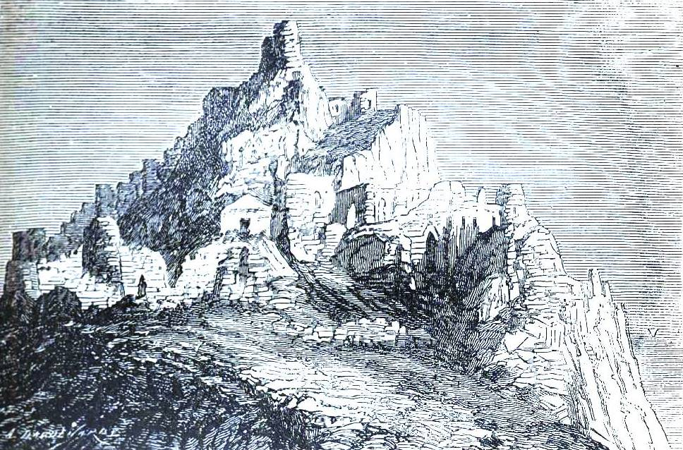 Pictures of Saint Hilarion, at the top of a rocky hill, and Cape Greco. Present day Cape Greco National Park - Cyprus.